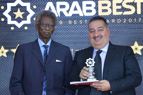 جائزة أفضل شركة عربية لعام 2017